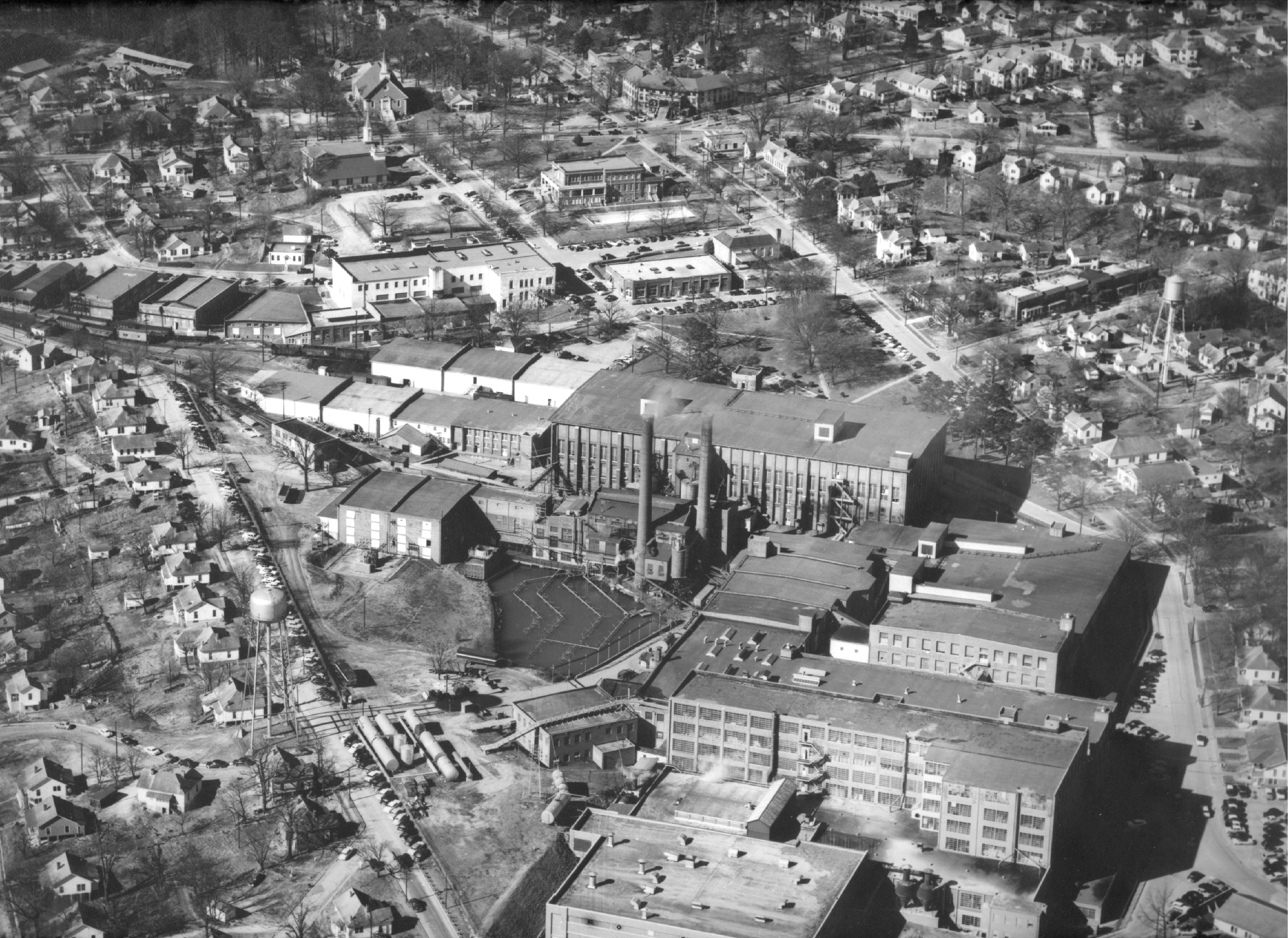 Areal view of the Riegel Mill and the Community Center. Photo by Bill Shannon, 1950